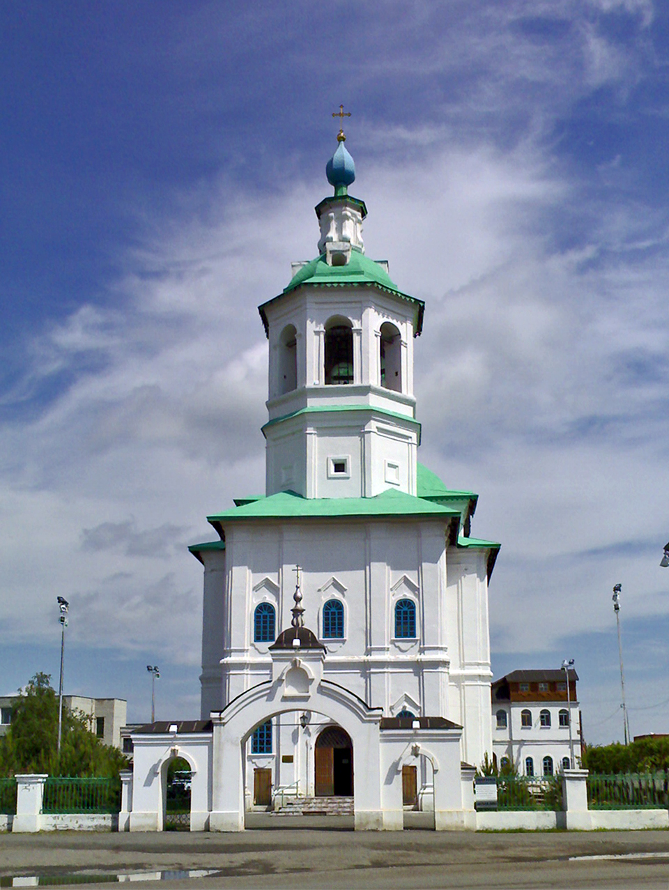 Bogoyavlensky sobor (Cathedral of the Epiphany) (1793). Ishim (Tyumen Oblast, Russia).